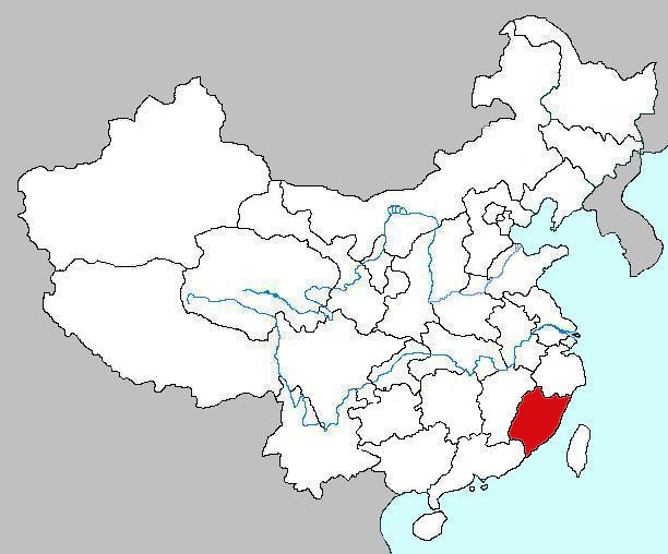 Maps of Fujian Province, China